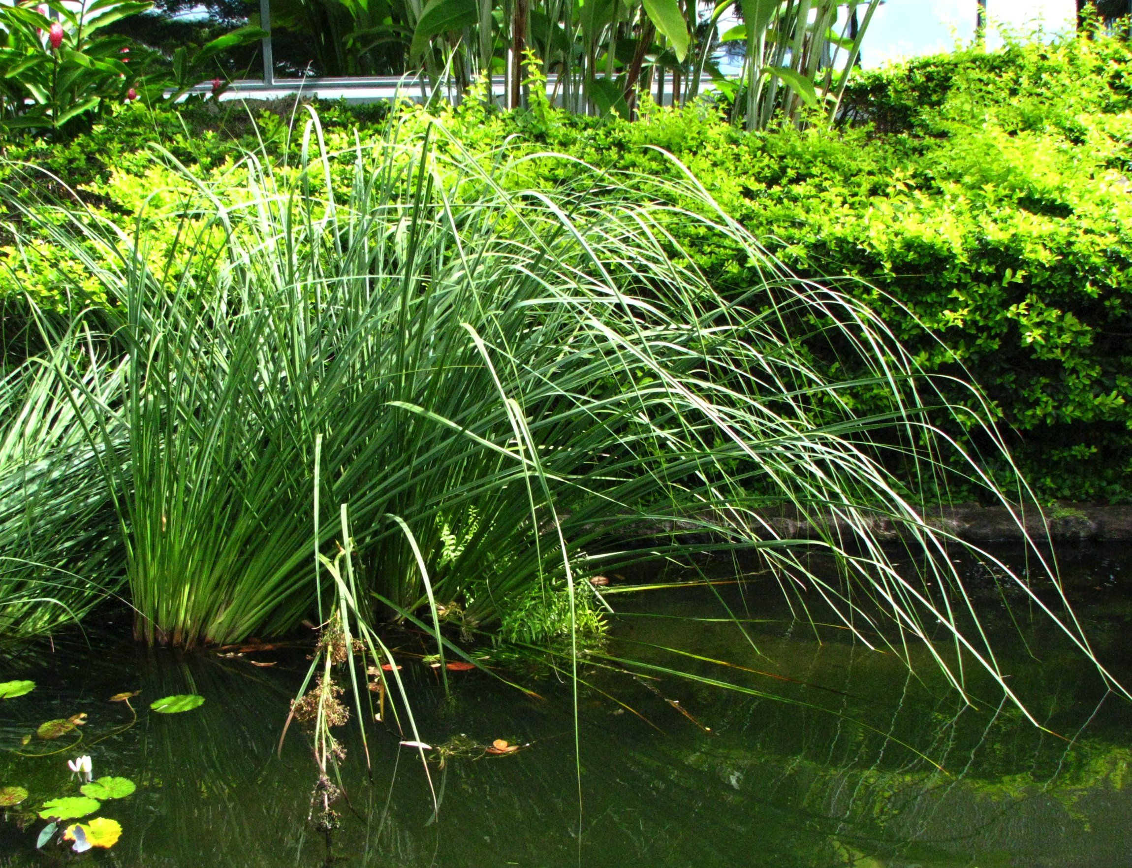 ʻUki or Jamaica sawgrass Cyperaceae Indigenous to the Hawaiian Islands Oʻahu (Cultivated)